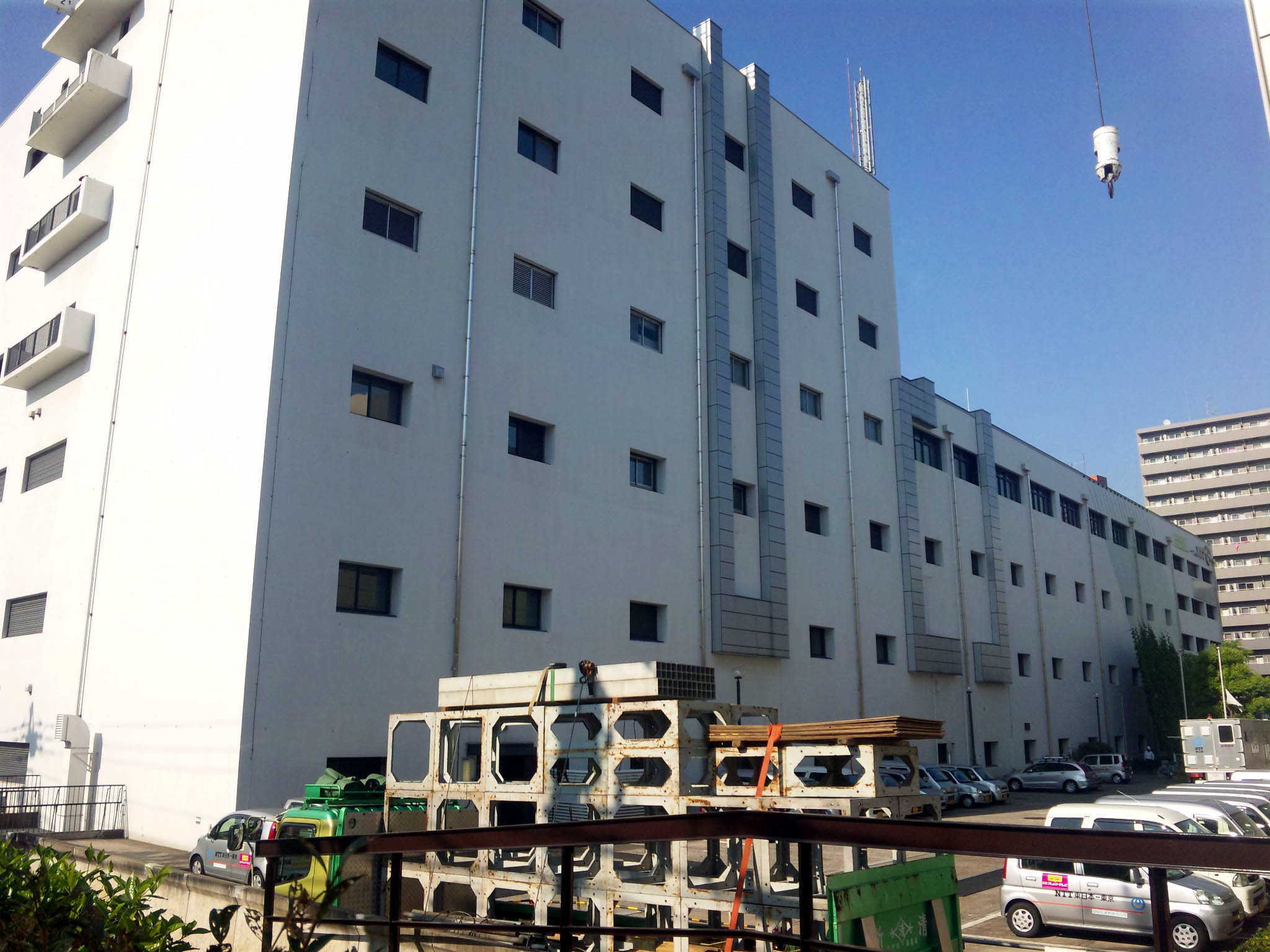 NTT EAST Shinjuku